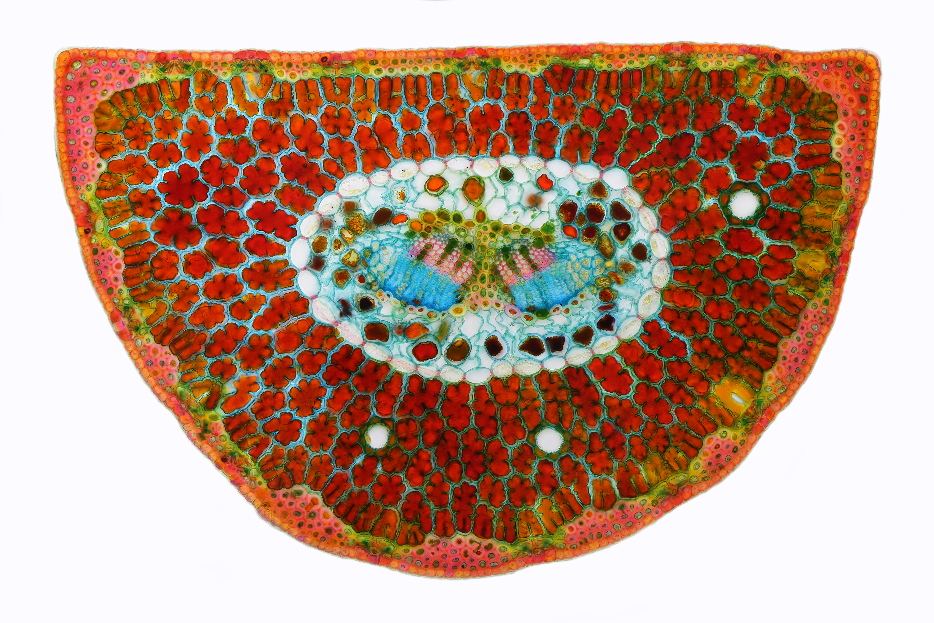 Transverse section of a needle of Pinus heldreichii Den Ouden (= Pinus leucodermis Den Ouden, Geldreich's pine, Bosnian pine). Author's permanent product, author's polychrome coloring of tissues. Panorama of 4 pictures, each of which is the result of a multifocus stacking of 15-20 frames.